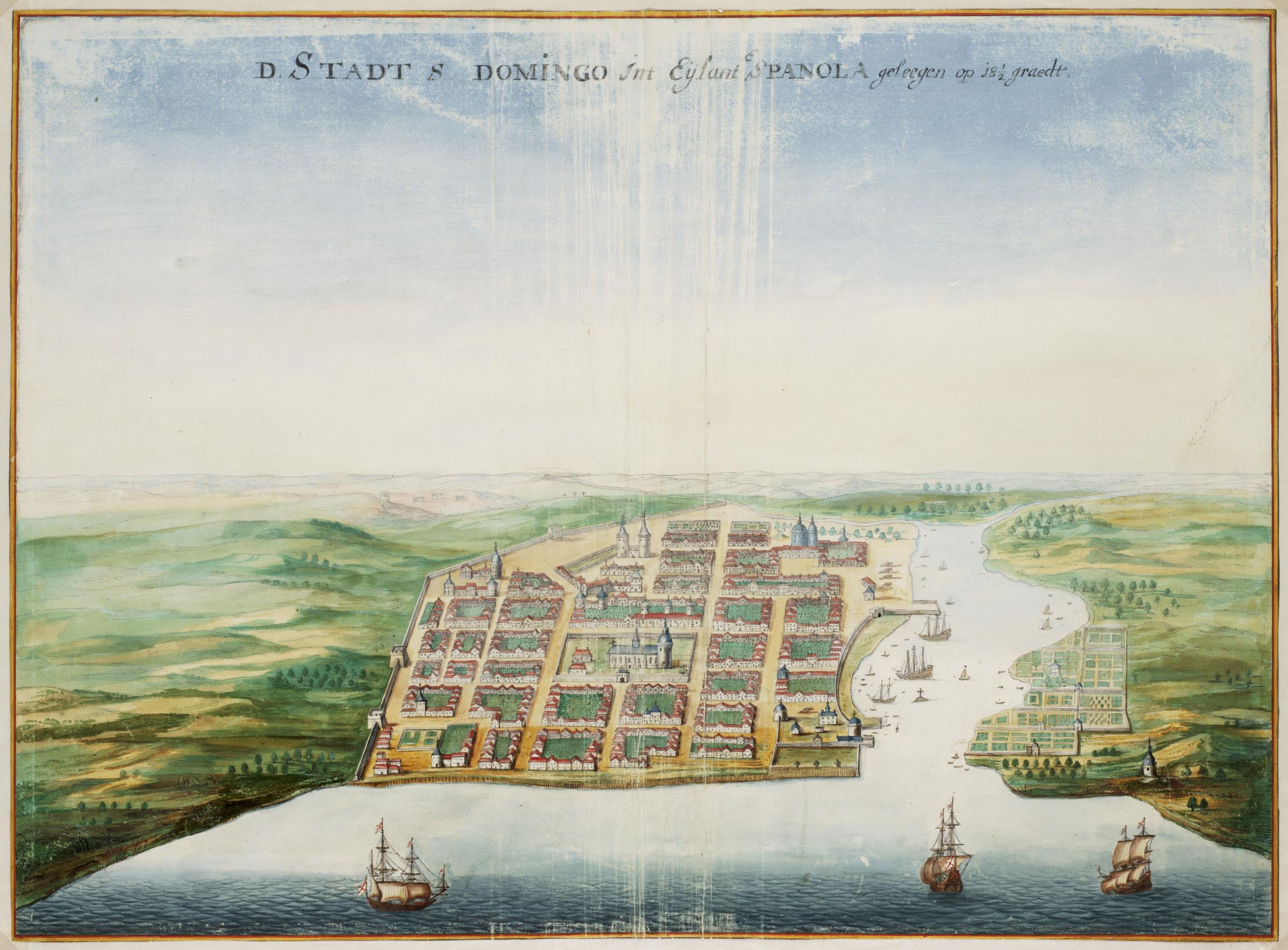 Title in the Leupe catalogue (NA): Gezicht in vogelvlucht op de "stadt S. Domingo int eijlant Espanola" van de zeezijde. Bird's eye view of the city of Santo Domingo. D: Stadt S: Domingo Int Eijlant E:spanola geleegen op 18 1/2 graedt. Notes: the chart forms part of the Vingboons Atlas.